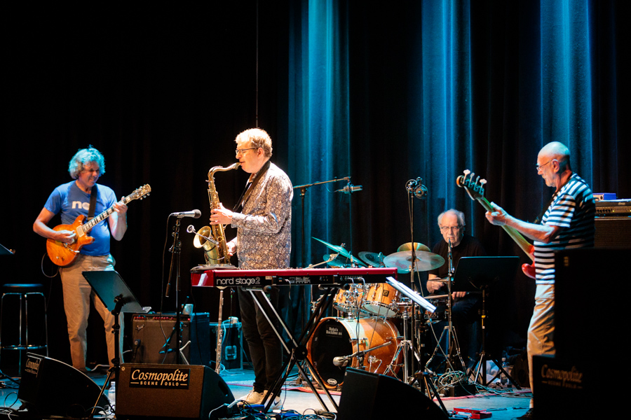 Soft Machine at Cosmopolite. The concert took place on 06. September 2018 in Oslo. Lineup: John Etheridge (guitar) Theo Travis (tenor saxophone and keyboard) Roy Babbington (bass guitar) John Marshall (drums)